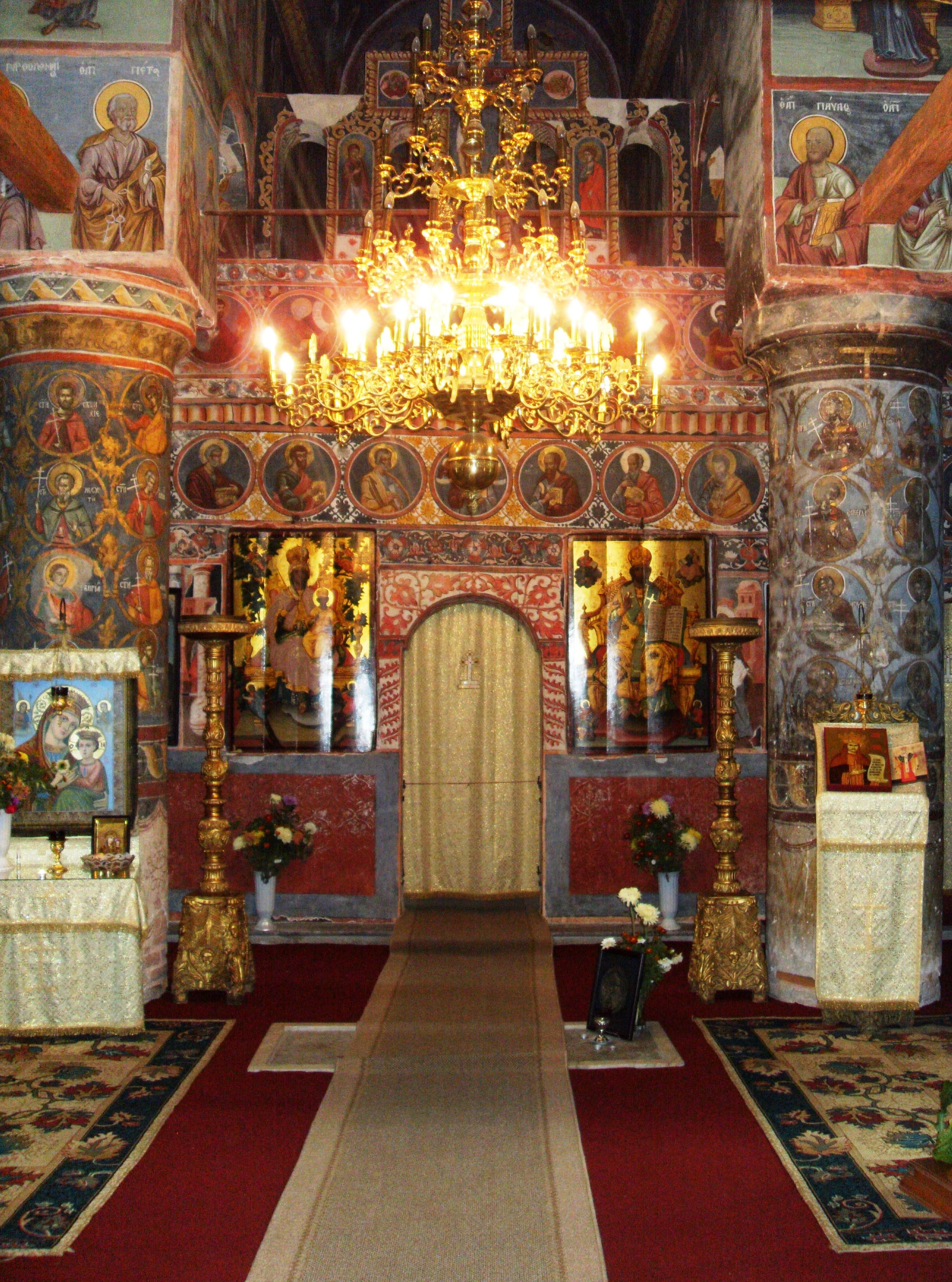 Interior view of the Snagov monastery, where Vlad III the Impaler is supposed to be graved. The monastery is located in an island of the Lake Snagov, near Bucharest